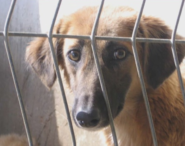 Tnu Lahayot Lihyot - Let the Animals Live